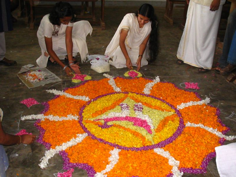 A "pukolam" (floral rangoli) in Kerala, made for the festival of Onam (Thiruvonam).